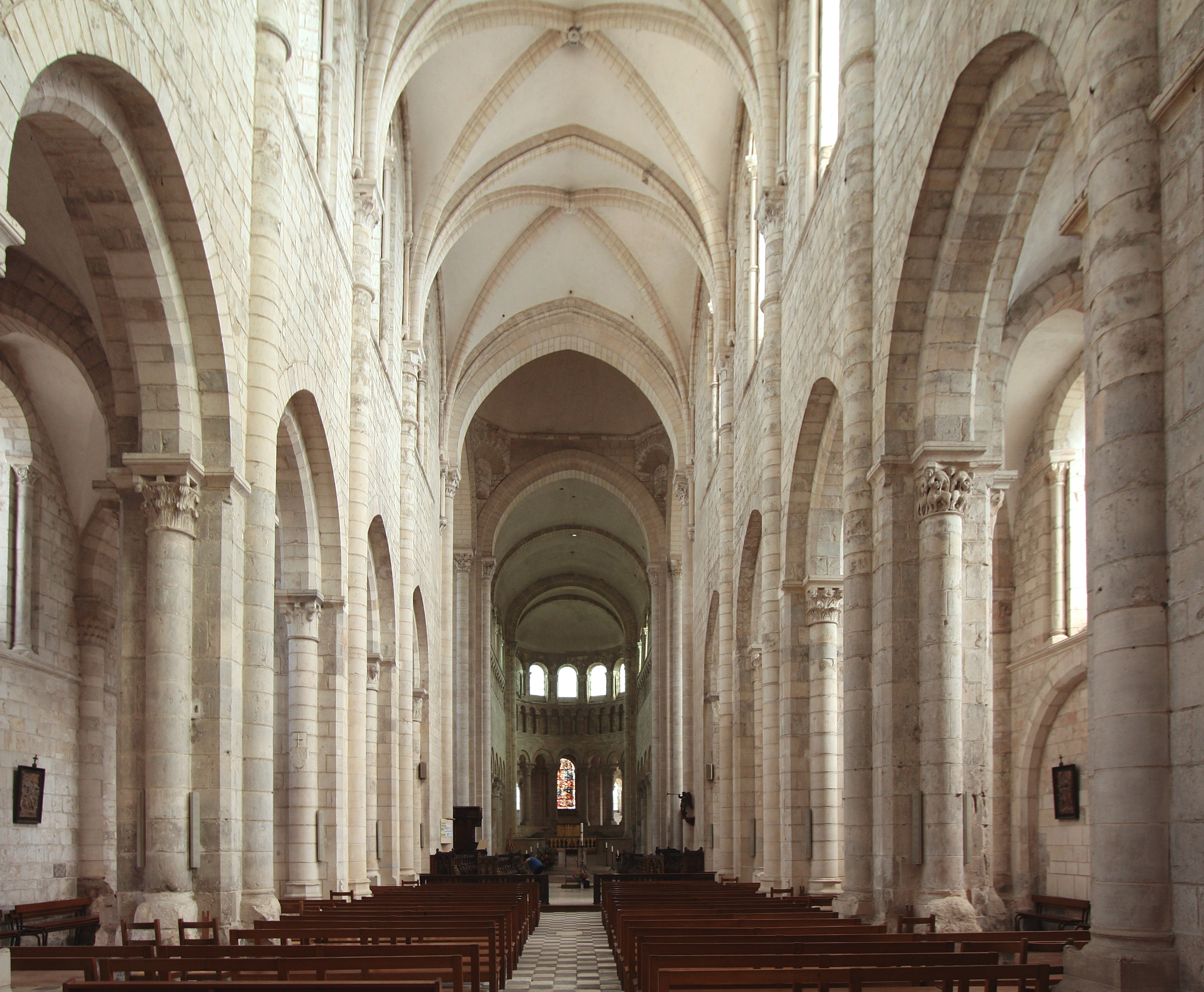 Abbaye de Saint Benoît, located in the town of Benoit-sur-Loire in the département of Loiret/France.